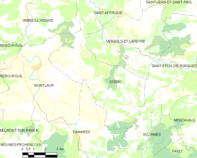 Map commune FR insee code 12109.png - Gissac